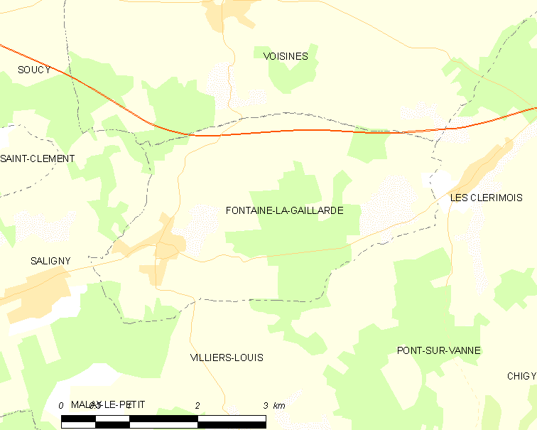 Map of French municipality Fontaine-la-Gaillarde